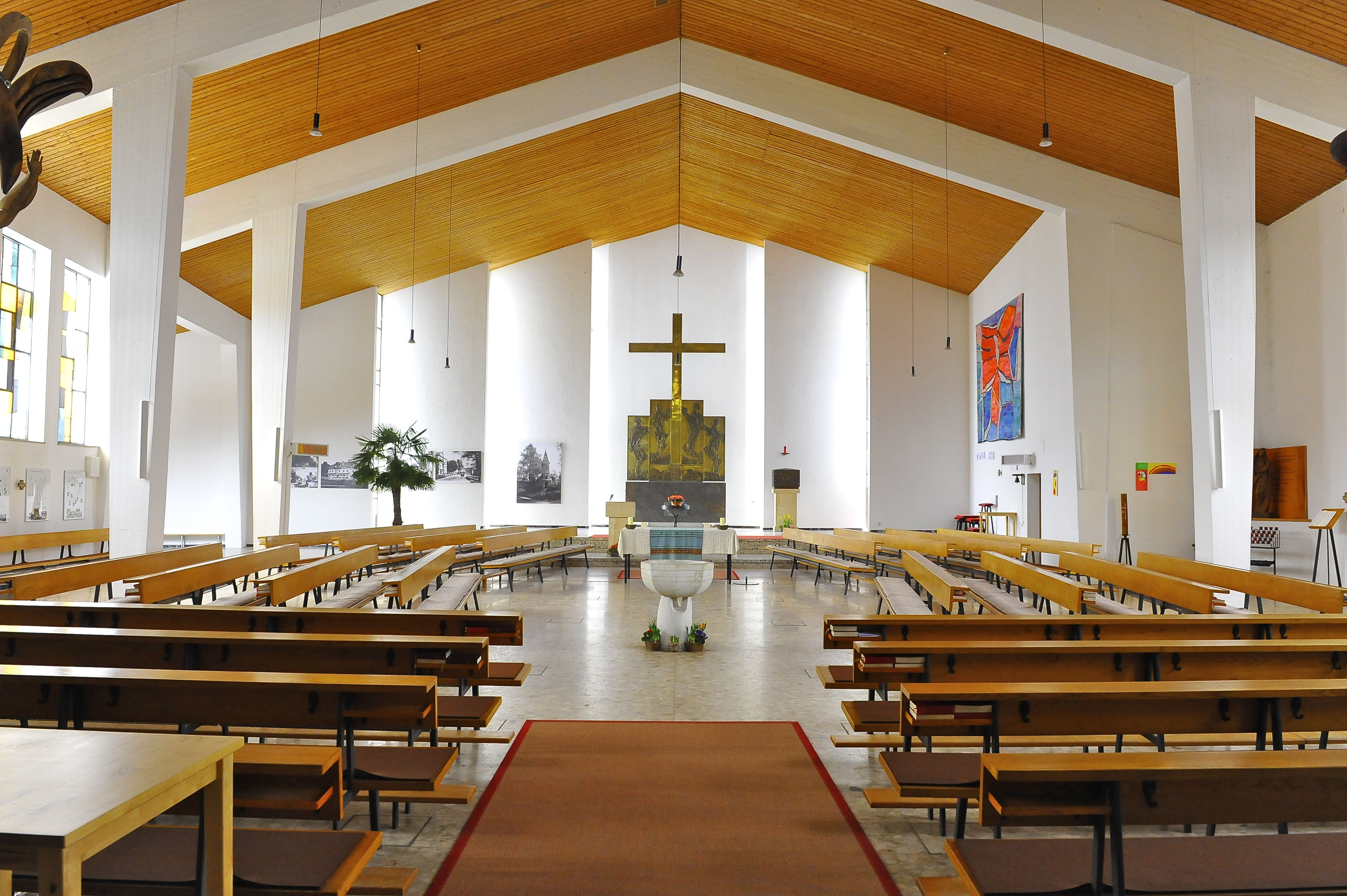 Interior of the parish church “Saint George” in Krumpendorf am Wörthersee, district Klagenfurt Land, Carinthia / Austria / EU